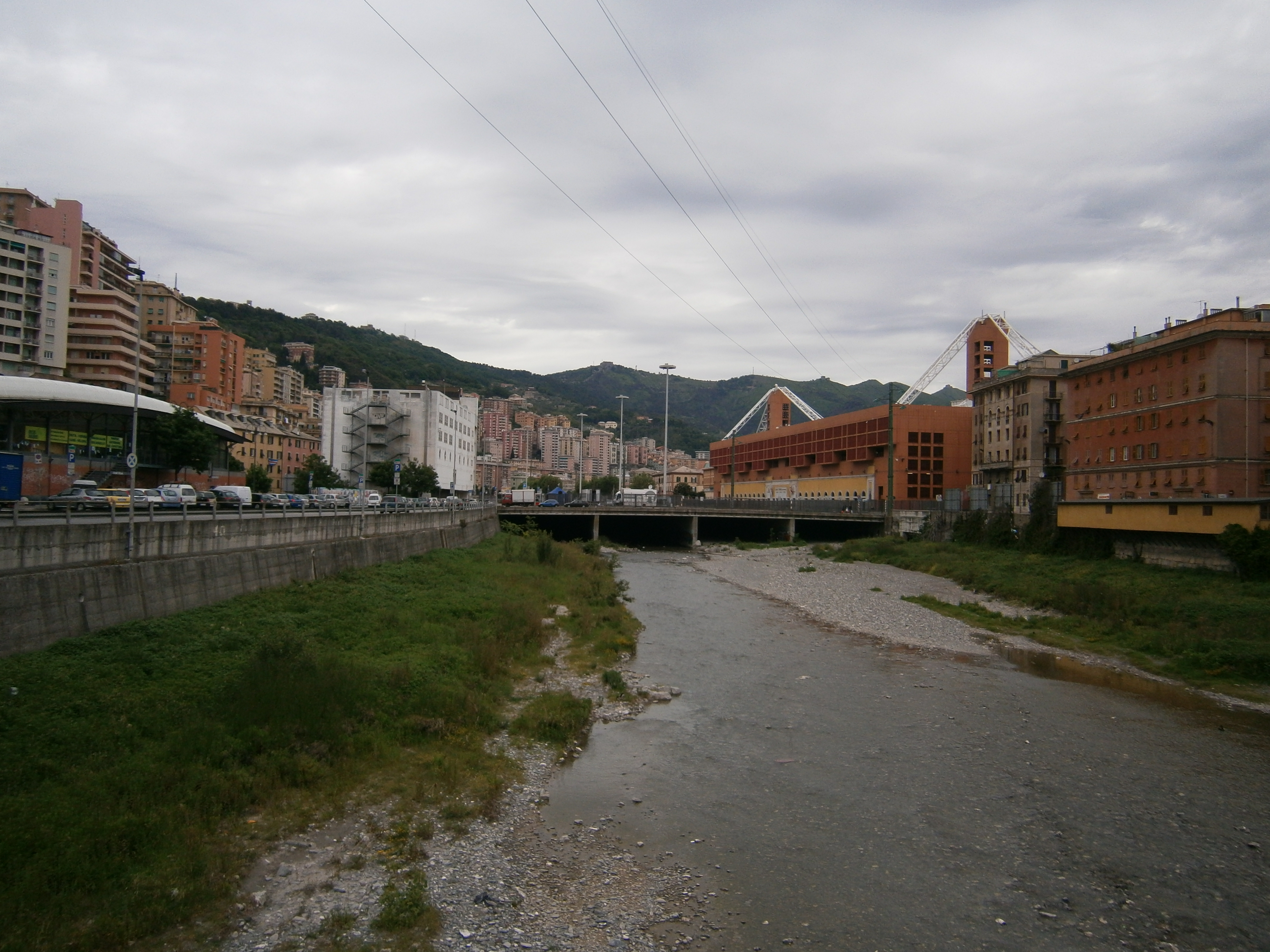 Genoa Marassi with the soccer stadium "Luigi Ferraris" and the river "Bisagno".